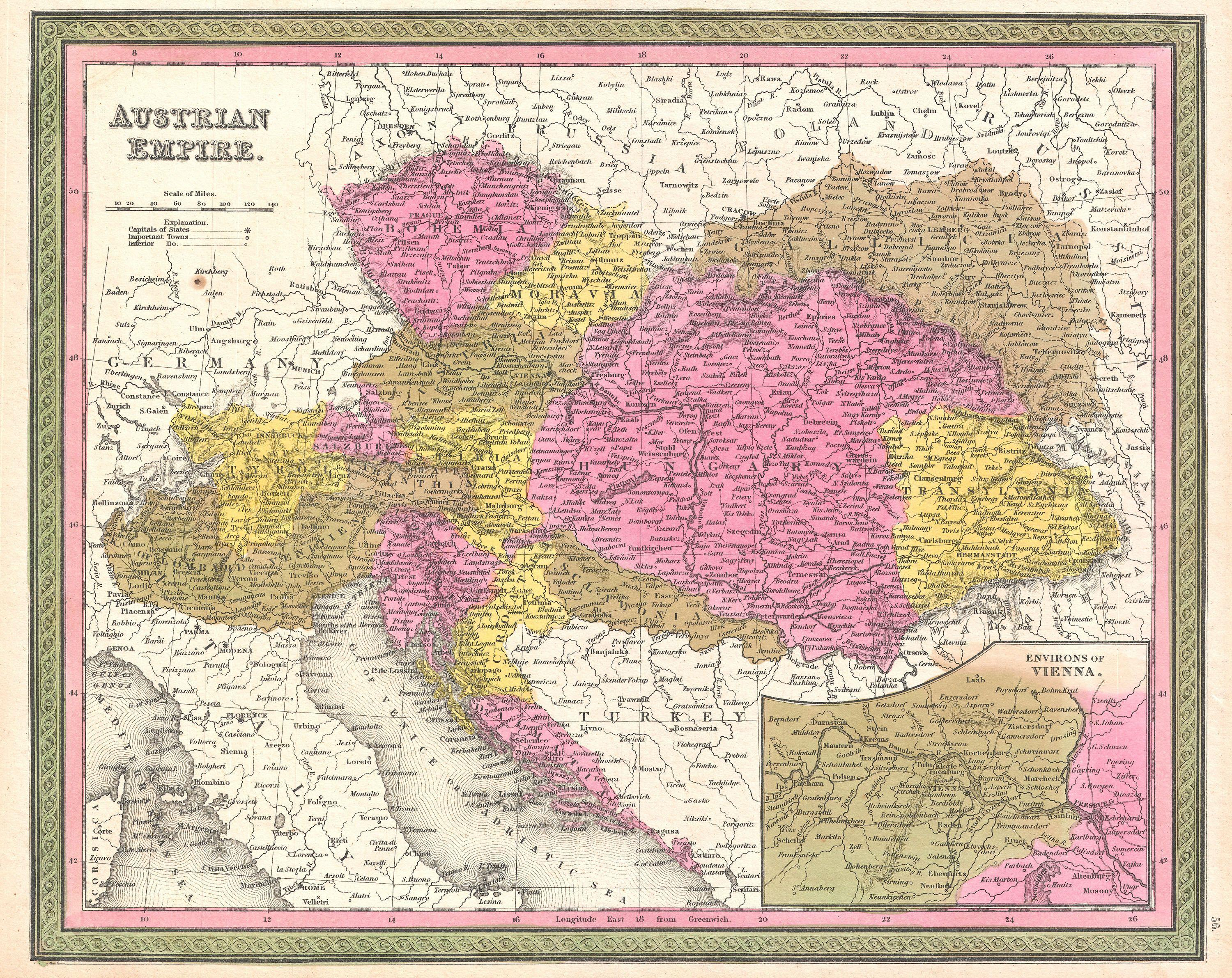 An extremely attractive example of S. A. Mitchell Sr.’s 1850 map of the Austrian Empire. Includes much of today's Austria, Hungary, Romania, Albania, Serbia and Croatia. Depicts the entire country color coded according to individual states. Lower right quadrant features an inset map of the Environs of Vienna. Surrounded by the green border common to Mitchell maps from the 1850s. Prepared by S. A. Mitchell for issued as plate no. 56 in the 1850 edition of his New Universal Atlas .